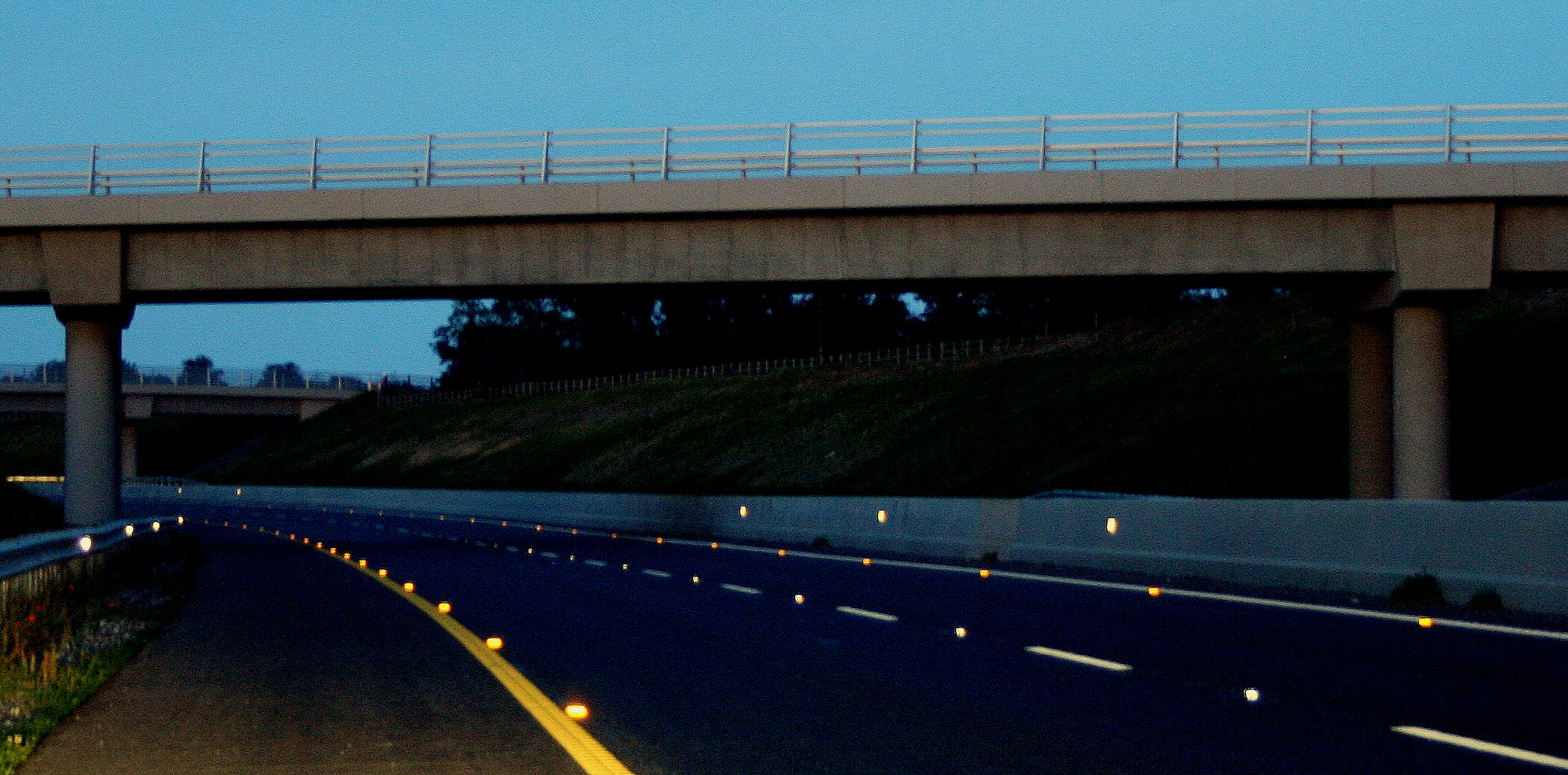 M9 Motorway in Co. Carlow, Ireland Late evening photo modified (darker, high contrast) to highlight cats eyes/retroreflectors